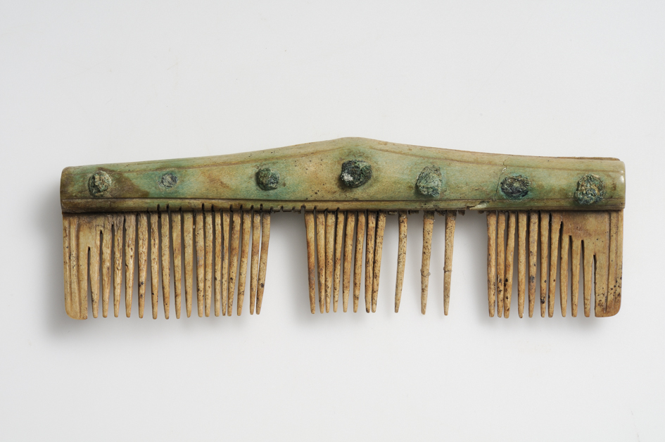 Comb Bone/antler The comb is made out of pieces of bone fixated between two coverplates and riveted togehter. Björkö, Adelsö, Uppland, Sweden. SHM 35000